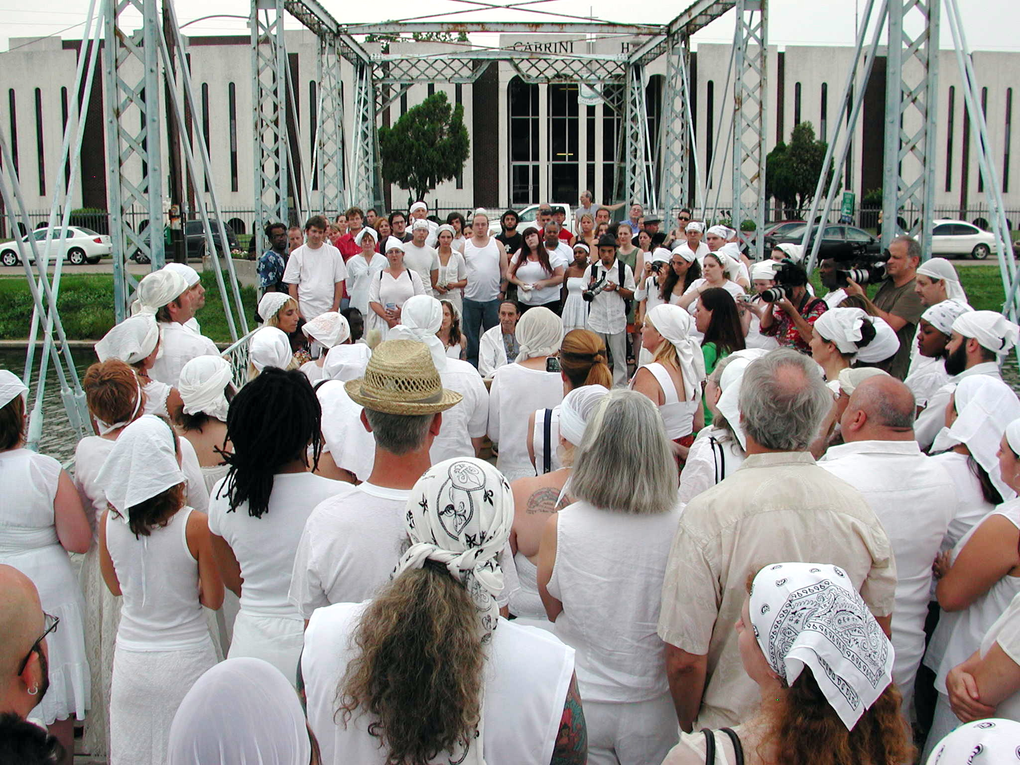 New Orleans. The old Bayou St. John swing bridge is crowded with celebrants and onlookers, for St. John's Eve Voudou ritual.